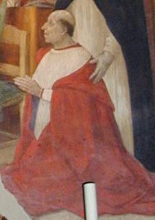 Cardinal Oliviero Carafa. Part of the fresco Annuciation in Carafa Chapel